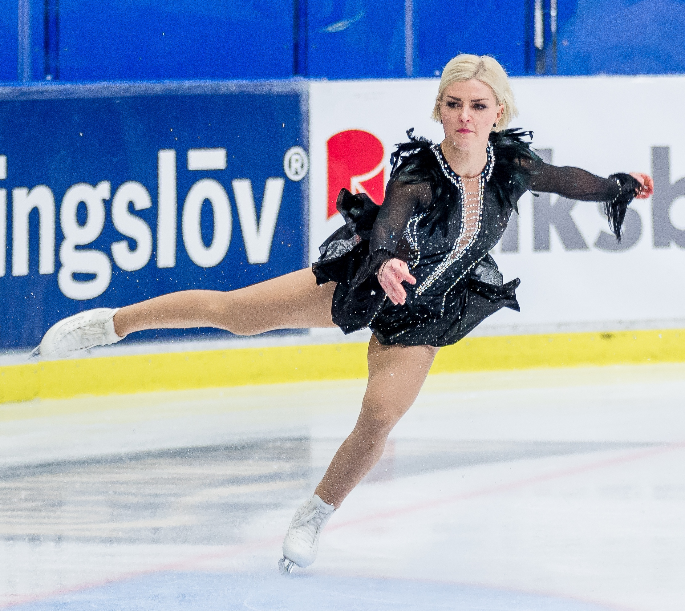 Swedish figure skater Joshi Helgesson performing her free skating at the 2013 Swedish figure skating champrionships at VIDA Arena in Växjö